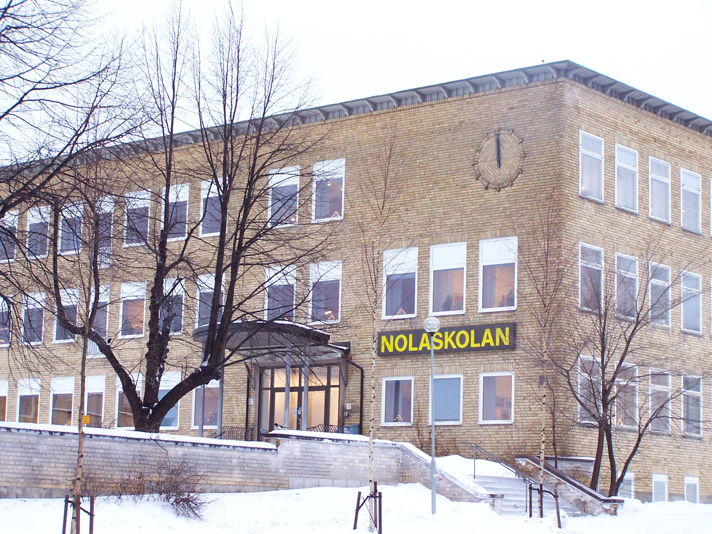 Secondary school Nolaskolan in Örnsköldsvik, Sweden